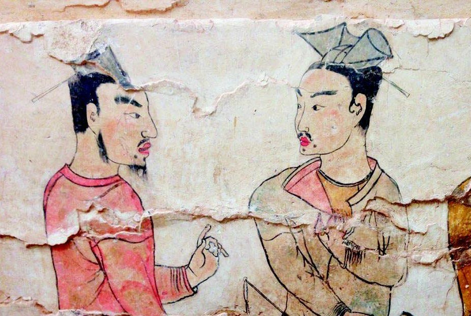 Mural from a tomb of Northern Qi Dynasty in Jiuyuangang, Xinzhou